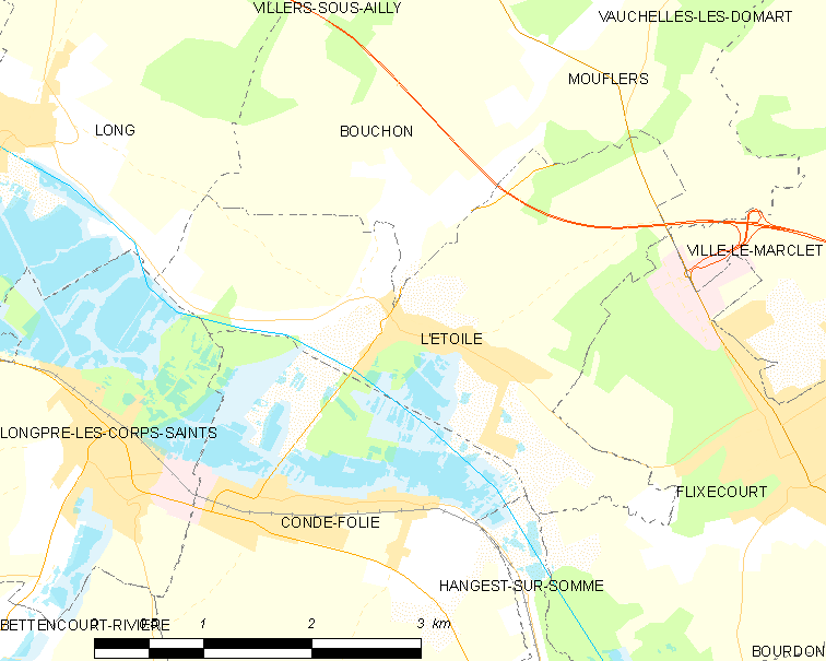 Map of French municipality L'Étoile